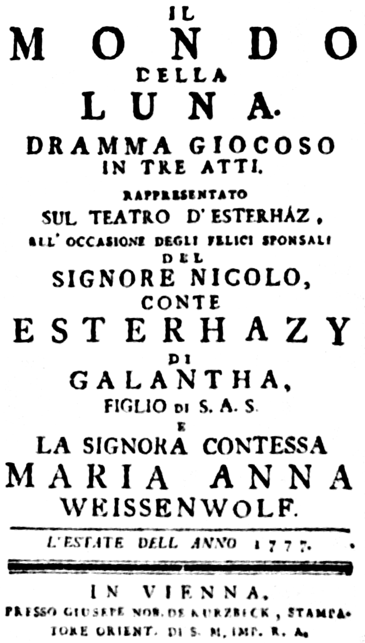 Haydn - Il mondo della luna - title page of the libretto - Esterhazy 1777